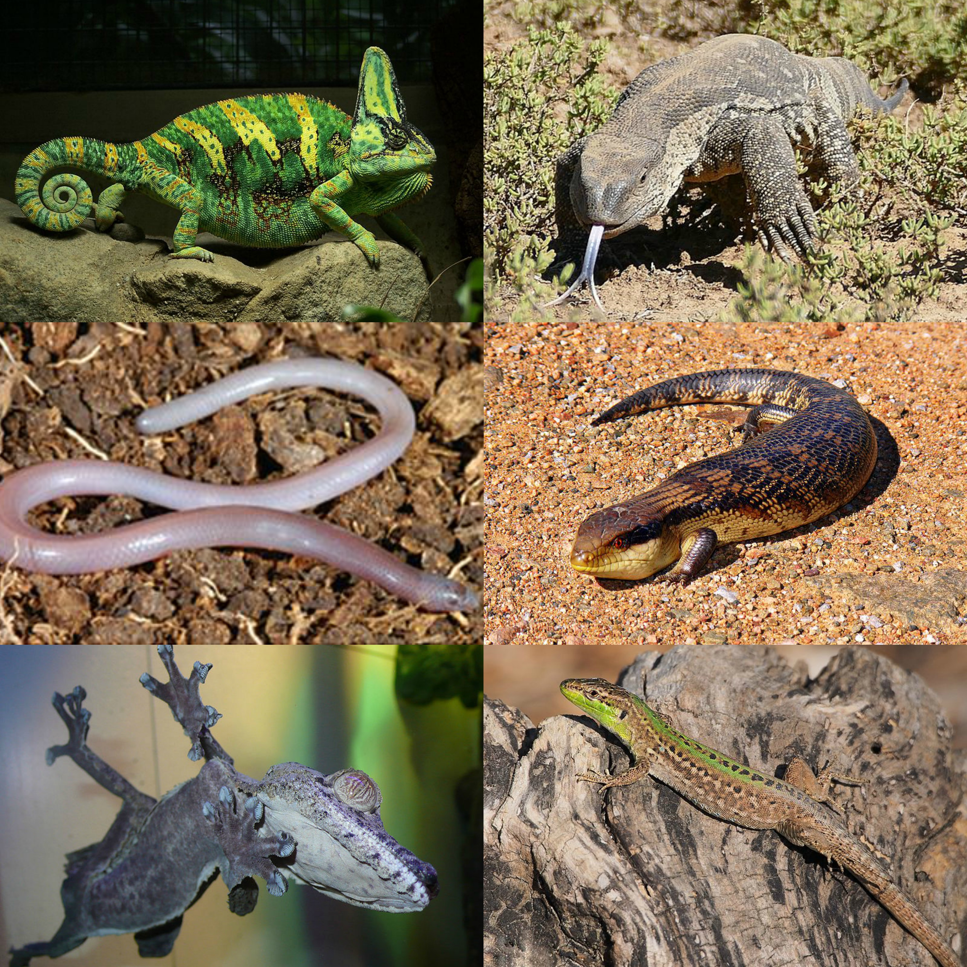 Clockwise from top left: veiled chameleon (Chamaeleo calyptratus), Rock monitor (Varanus albigularis), Common blue-tongued skink (Tiliqua scincoides), Italian wall lizard (Podarcis sicula), giant leaf-tailed gecko (Uroplatus fimbriatus), and legless lizard (Anelytropsis papillosus)